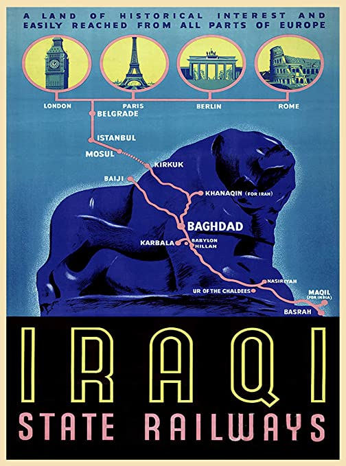 Iraqi State Railways poster, 1930s